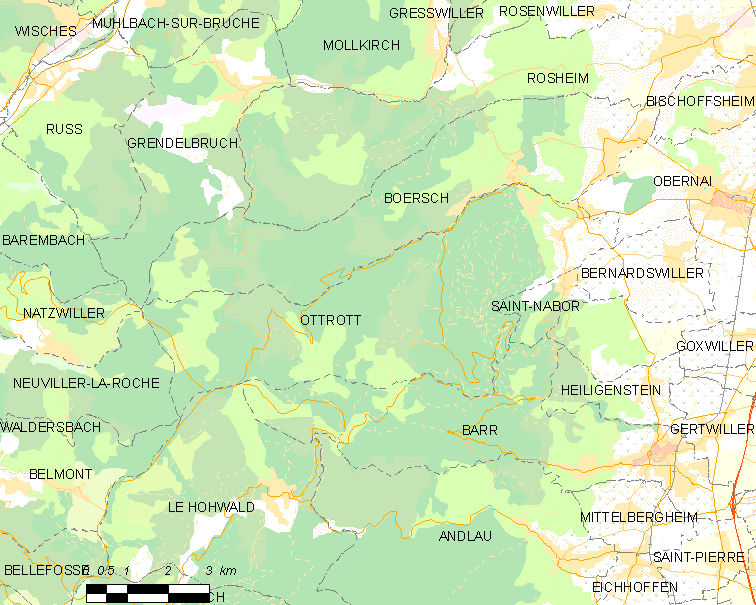 Map of French municipality